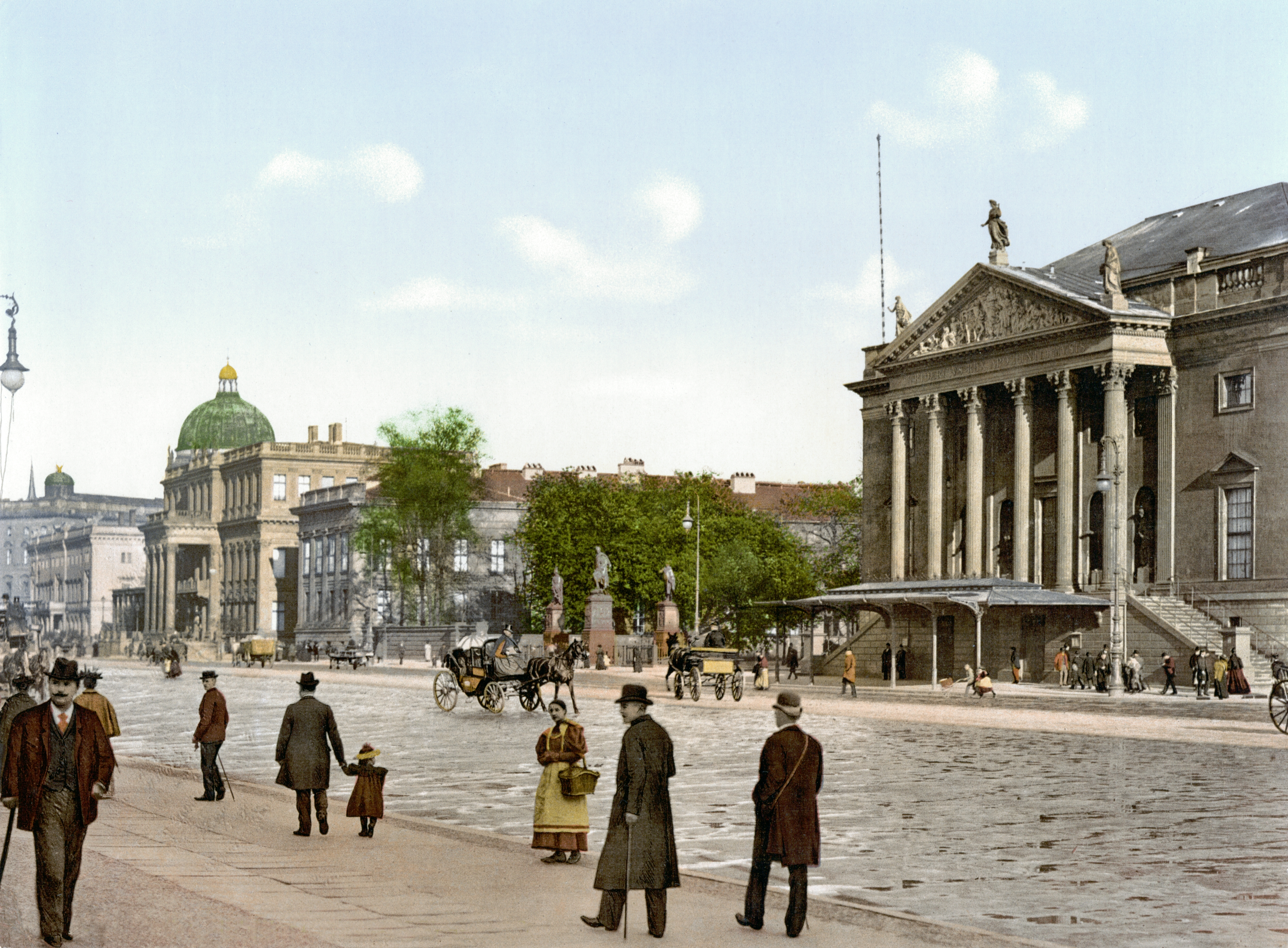 Unter den Linden in Berlin with (from right) Staatsoper, Prinzessinnenpalais, Kronprinzenpalais and Kommandantenhaus, around 1890 and 1900